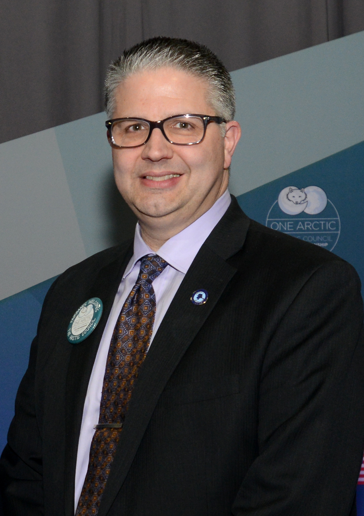 U.S. Secretary of State Rex Tillerson poses for a photo with Fairbanks Mayor Jim Matherly at the 10th Arctic Council Ministerial in Fairbanks, Alaska, on May 11, 2017. [U.S. Air Force photo/ Public Domain]